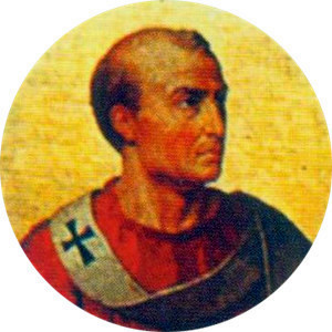 Portait of Pope Gregory VI in the Basilica of Saint Paul Outside the Walls, Rome